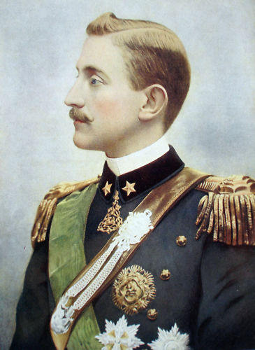 Lithograph of "His Royal Highness - The Duke of Aosta", c. 1899 (unsigned)